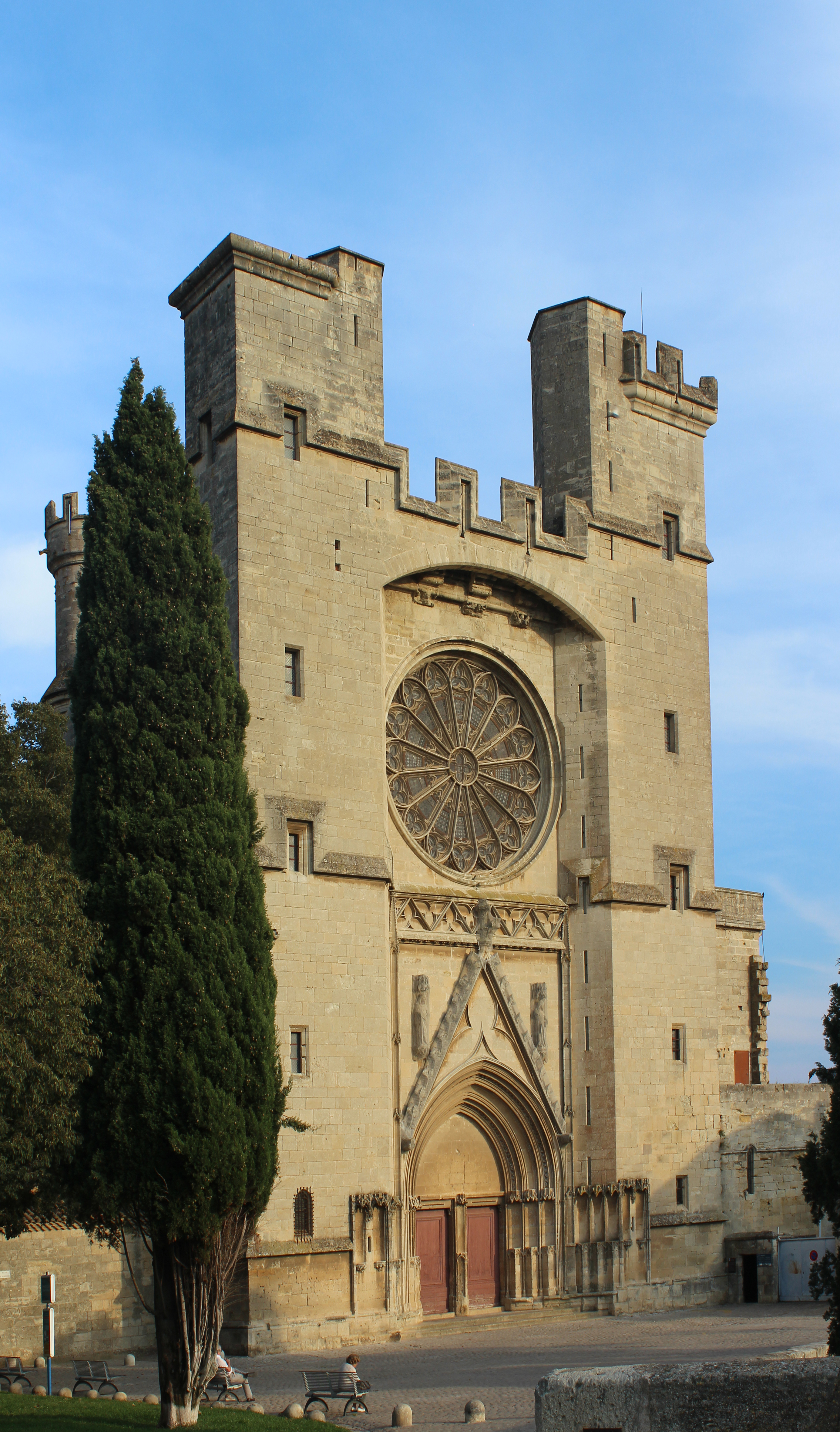 Cathédrale Saint-Nazaire de Béziers, Western facade